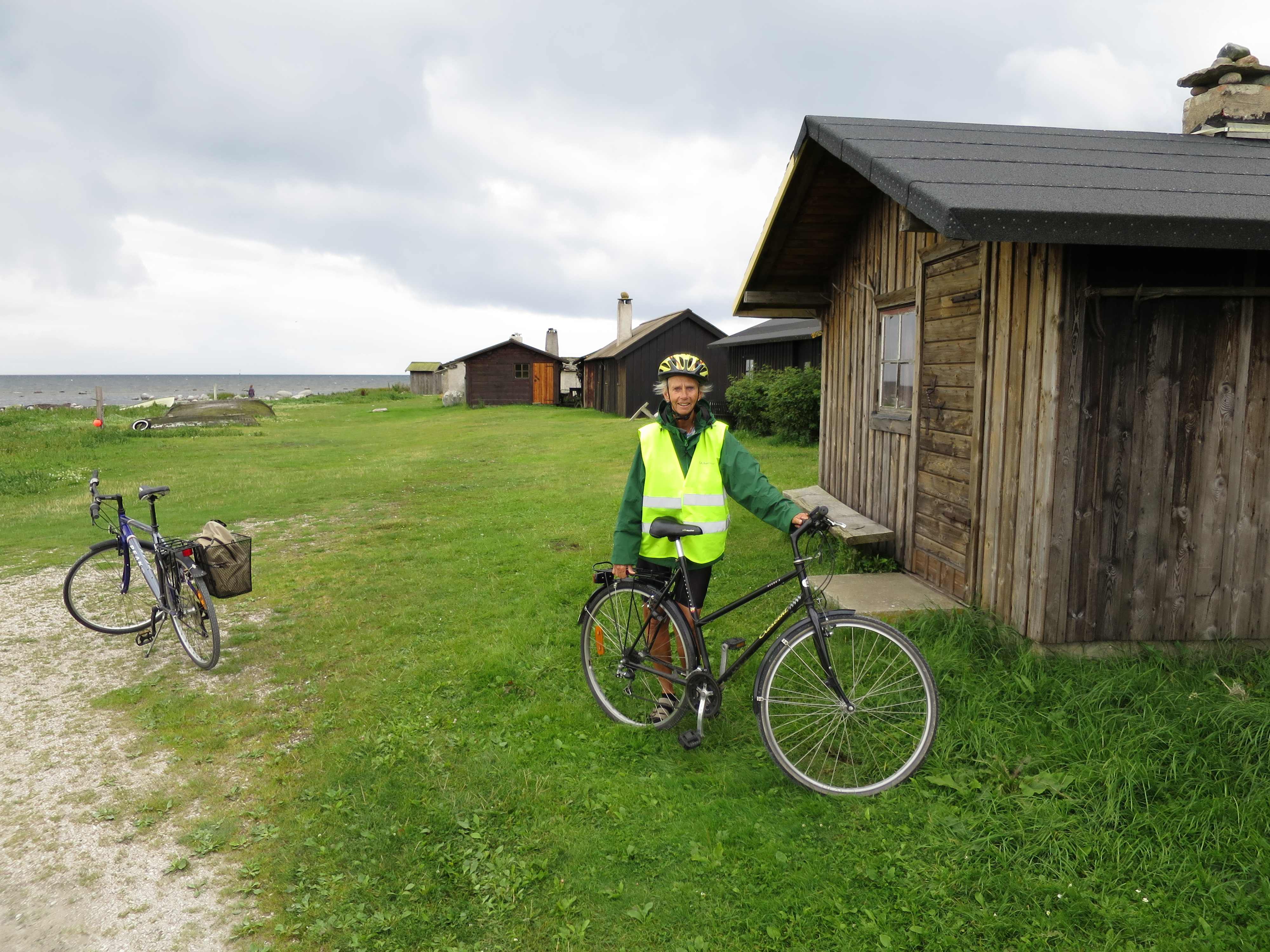 Gotland